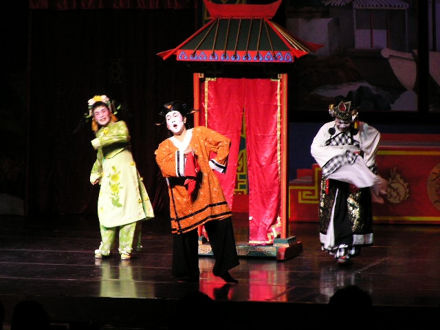 A Chinese theater performance in Indonesia.